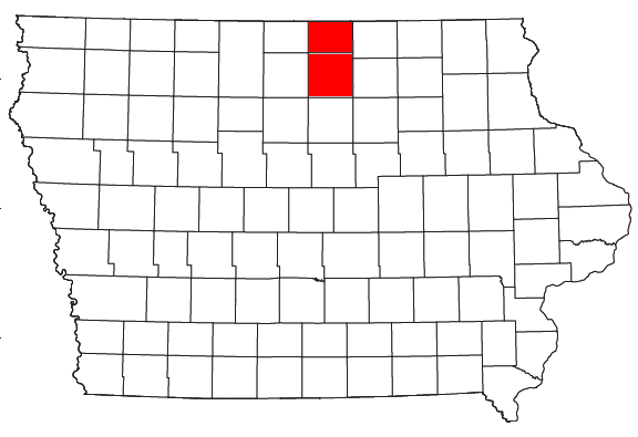 Locator map of the Mason City Micropolitan Statistical Area in the northern part of the U.S. state of Iowa.